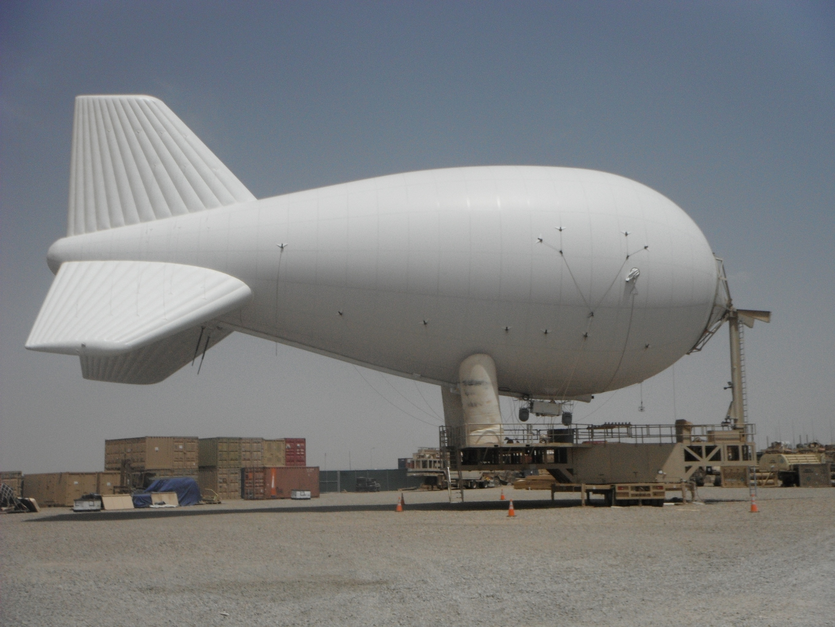 PTDS Aerostat in Afghanistan AUG 2013